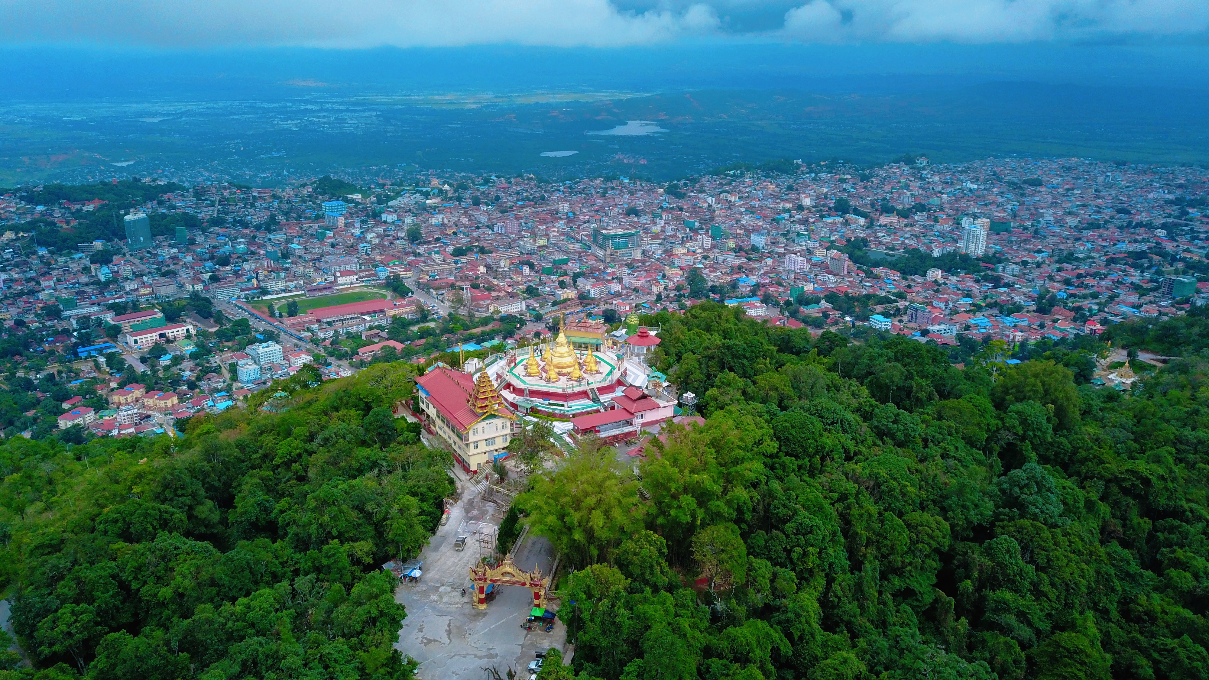 Shwe Bone Pwint Pagoda, Taunggyi, Shan State